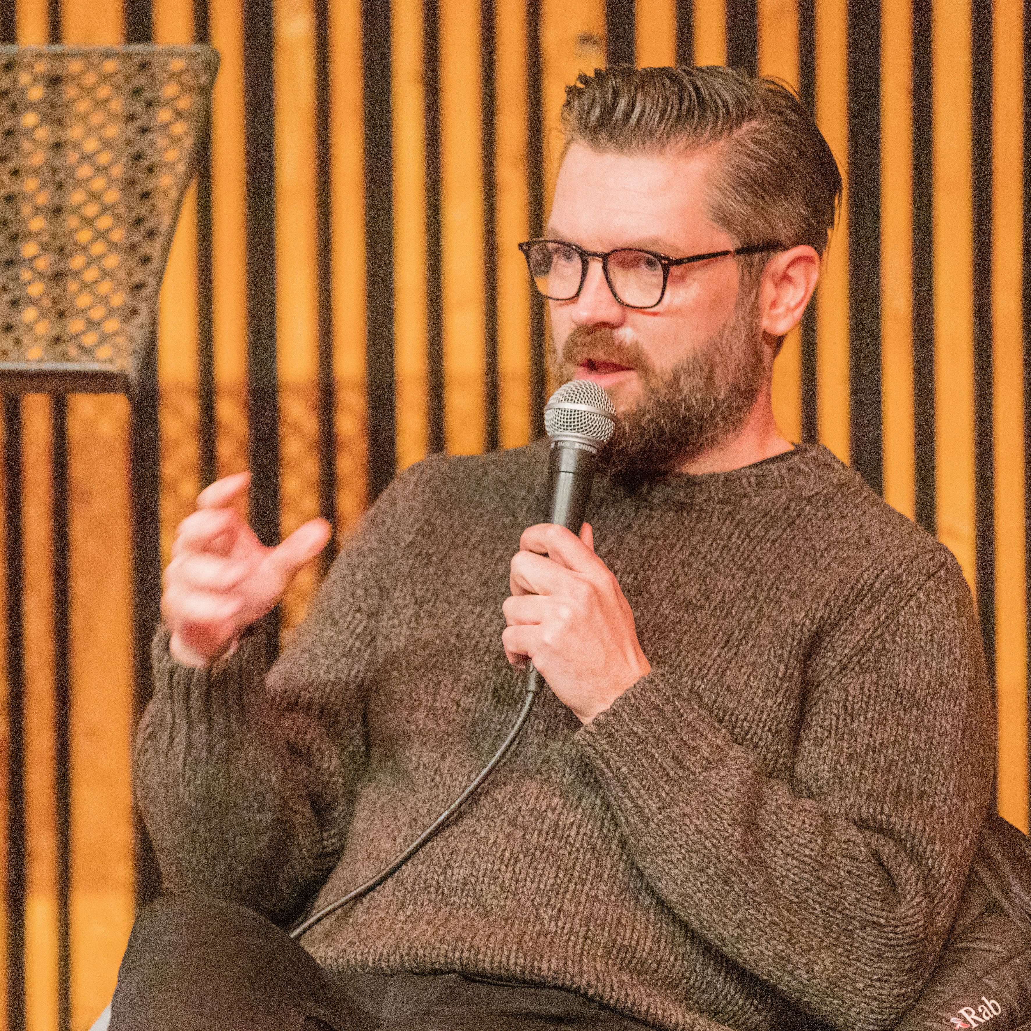 Chris Swanson in an interview with Kent Horne and Classic Album Sunday. The event was part of Bylarm and took place on Kulturhuset in Oslo on 02. March 2019.